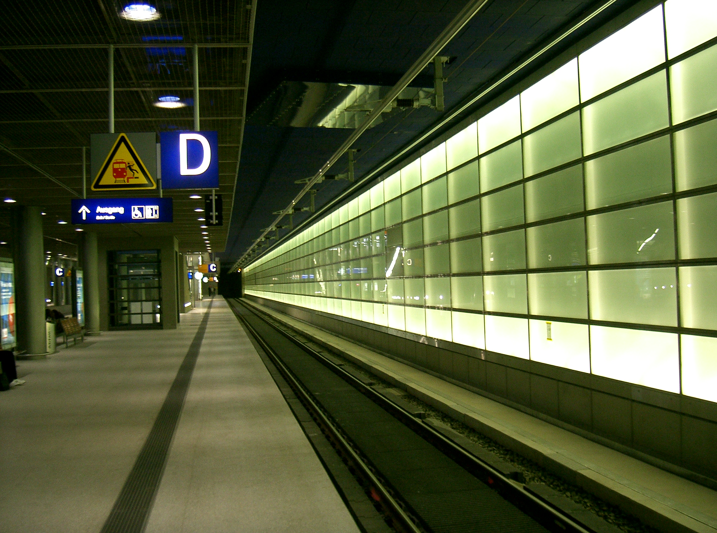 Station Berlin Potsdamer Platz, Track 4.